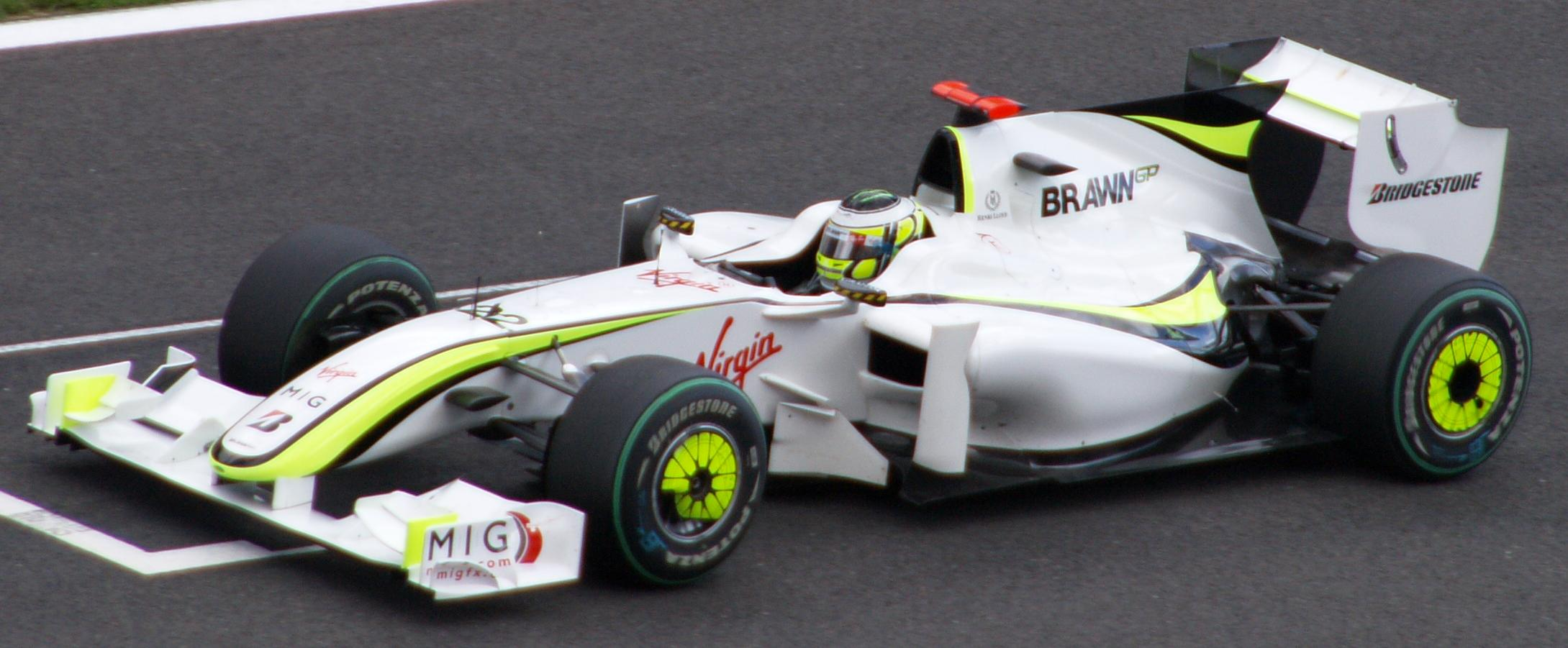 Jenson Button driving for Brawn GP at the 2009 Belgian Grand Prix.